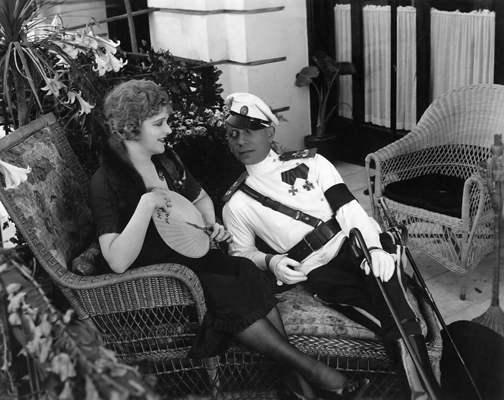 Screen-capture of main actors in film: ' (1922).